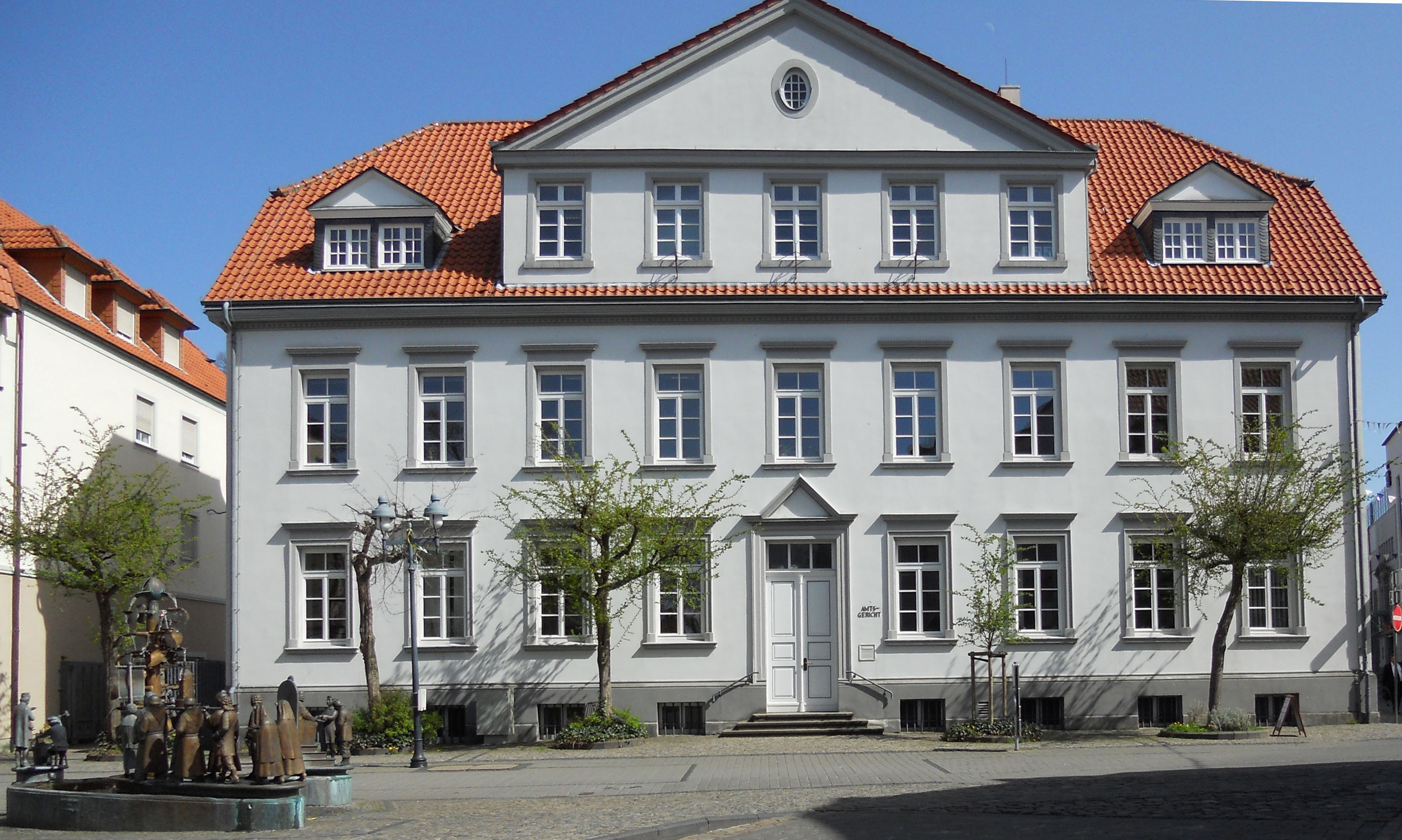 Amtsgericht (Local Court) Werl, Kreis Soest, North Rhine-Westphalia, Germany.